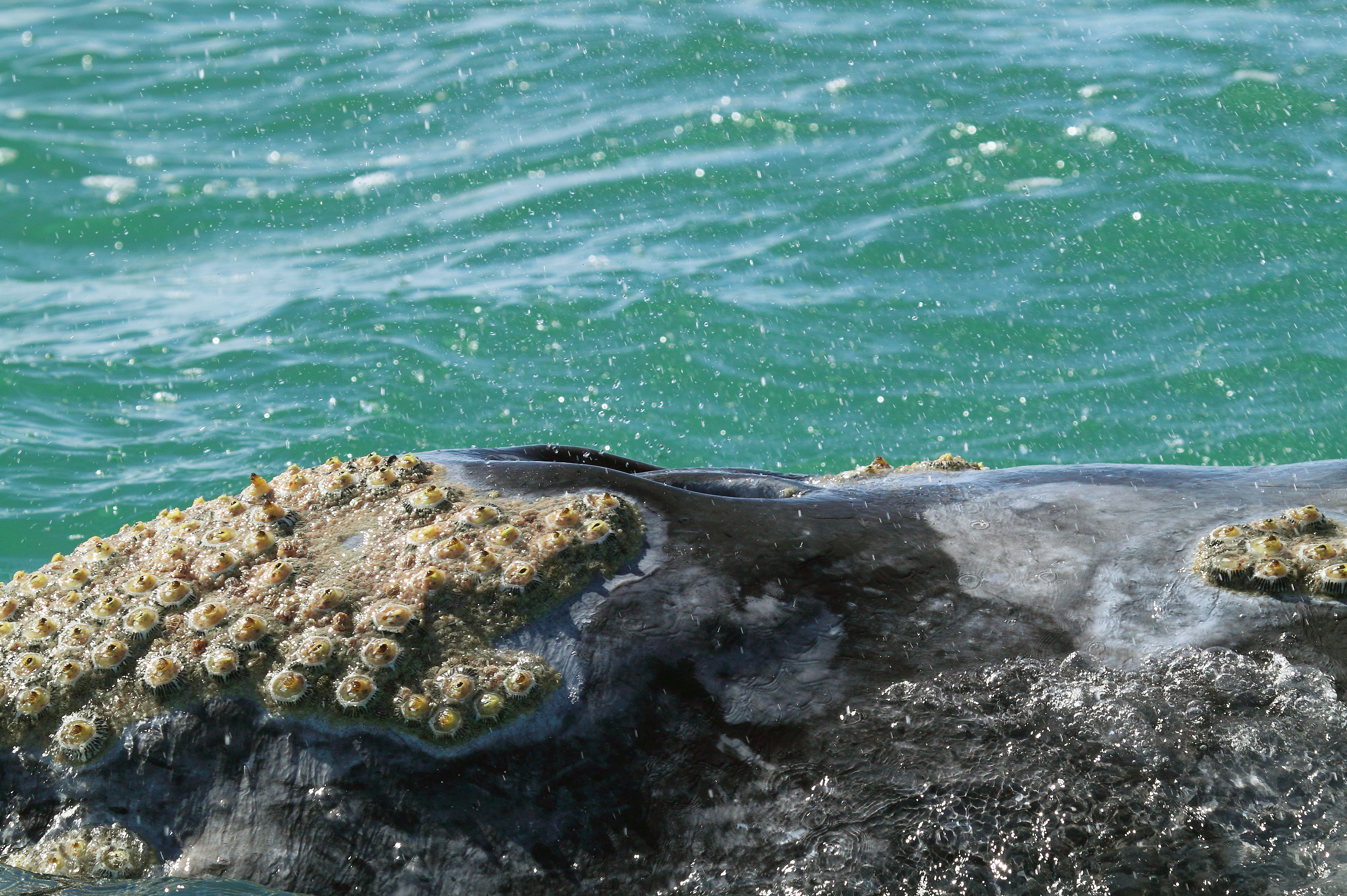 Rostrum of a Baja California gray whale by the blowhole covered in whale barnacles (Cryptolepas rhachianecti) and cyamids (small crustaeans commonly called whale lice